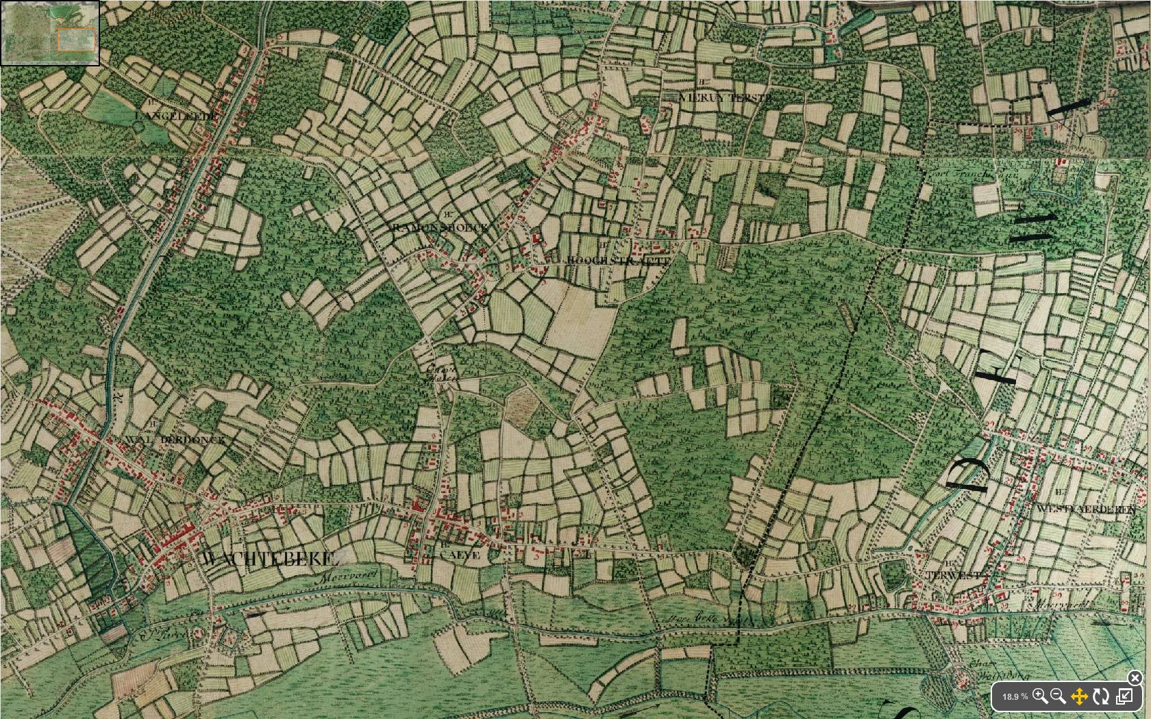 Wachtebeke,_Belgium,_Ferraris_Map,_1775.jpg